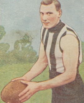 Photograph of Percy Rowe in 1922